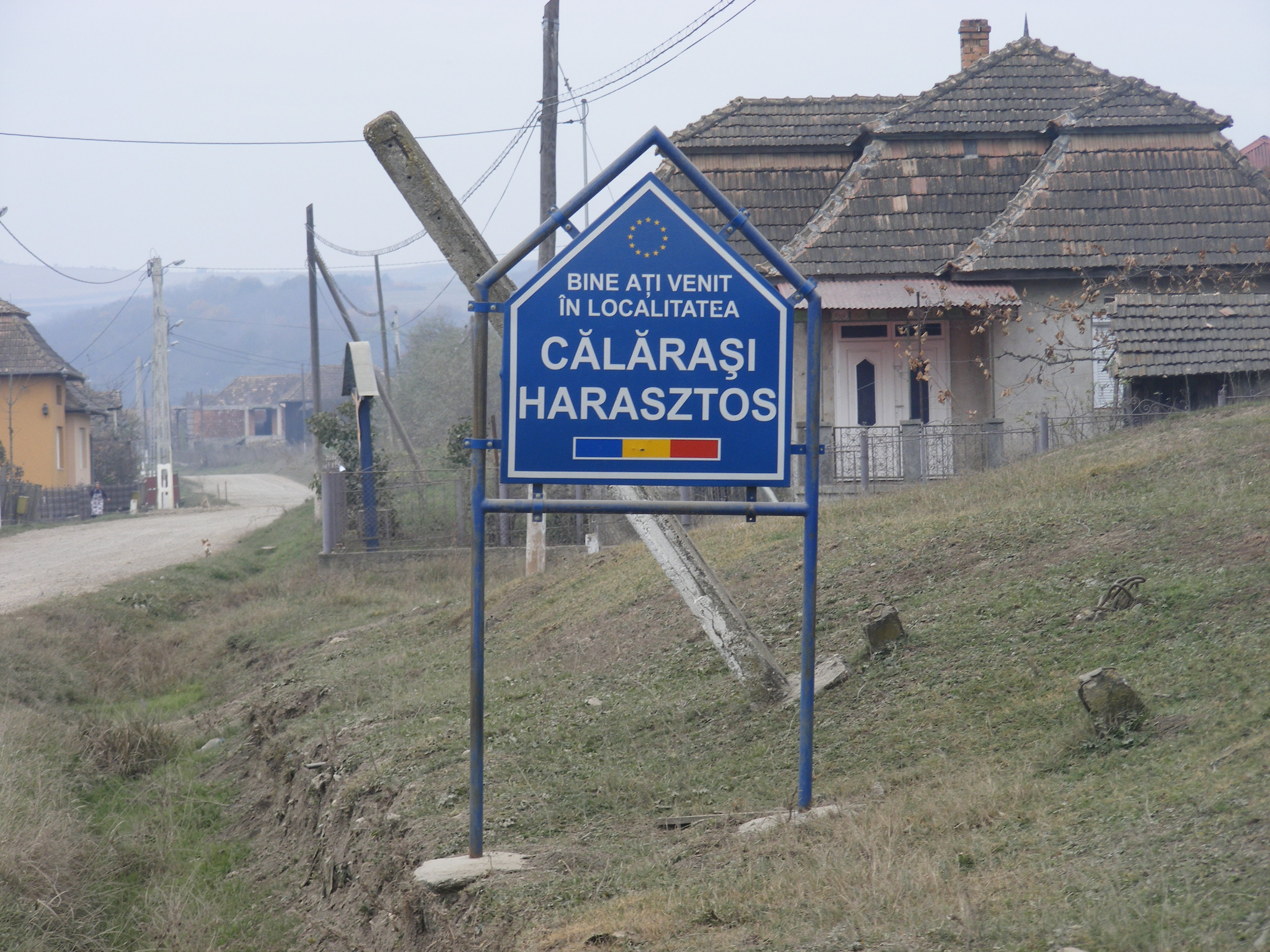 Entrance to the village of Călărași (Harasztos), Romania, Cluj County.